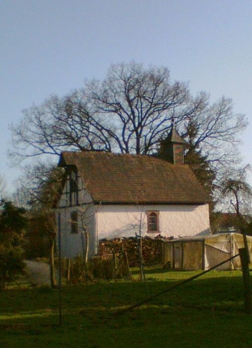 little church on land estate in Hoppensen, Germany